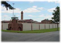 United States Penitentiary Lewisburg in Central Pennsylvania